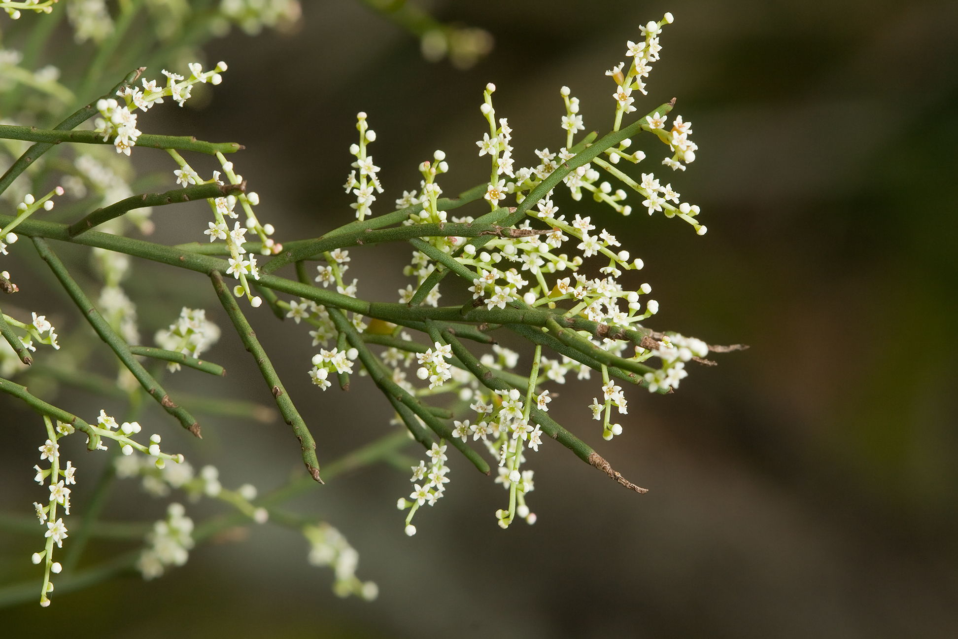 Leptomeria drupacea, Mortimer Bay, South Arm, Tasmania, Australia